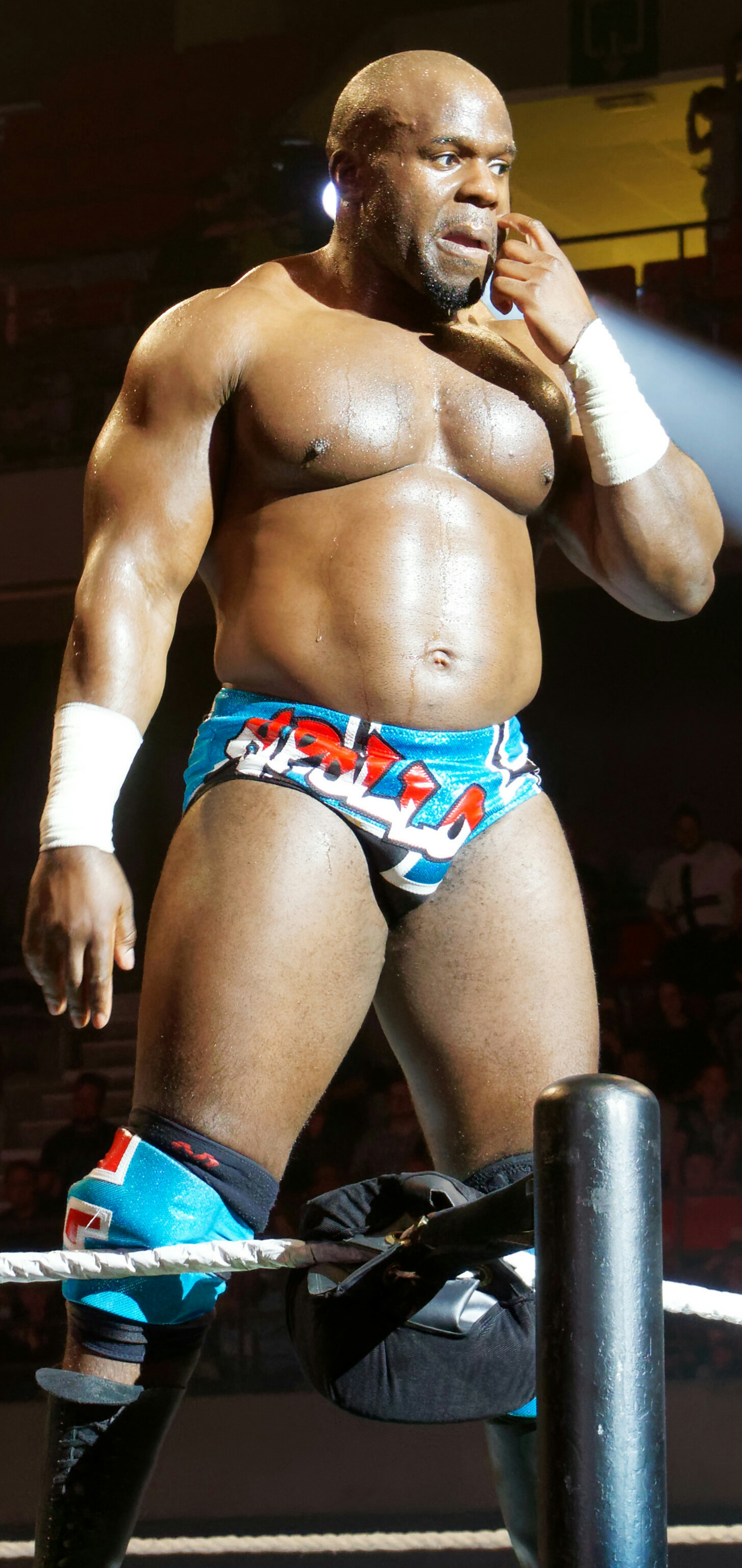 Apollo Crews, Kalisto, Goldust & R-Truth defeat Bo Dallas, Curt Hawkins, Curtis Axel, Titus O'Neil (in Eight Man Tag Team Match) ( Le vendredi 12 mai, la WWE Live Tour fera escale au Country Hall a Liege pour le spectacle de catch de l'annee! Au programme: des duels impitoyables et des rencontres captivantes entre les meilleures equipes et les plus grands rivaux. )